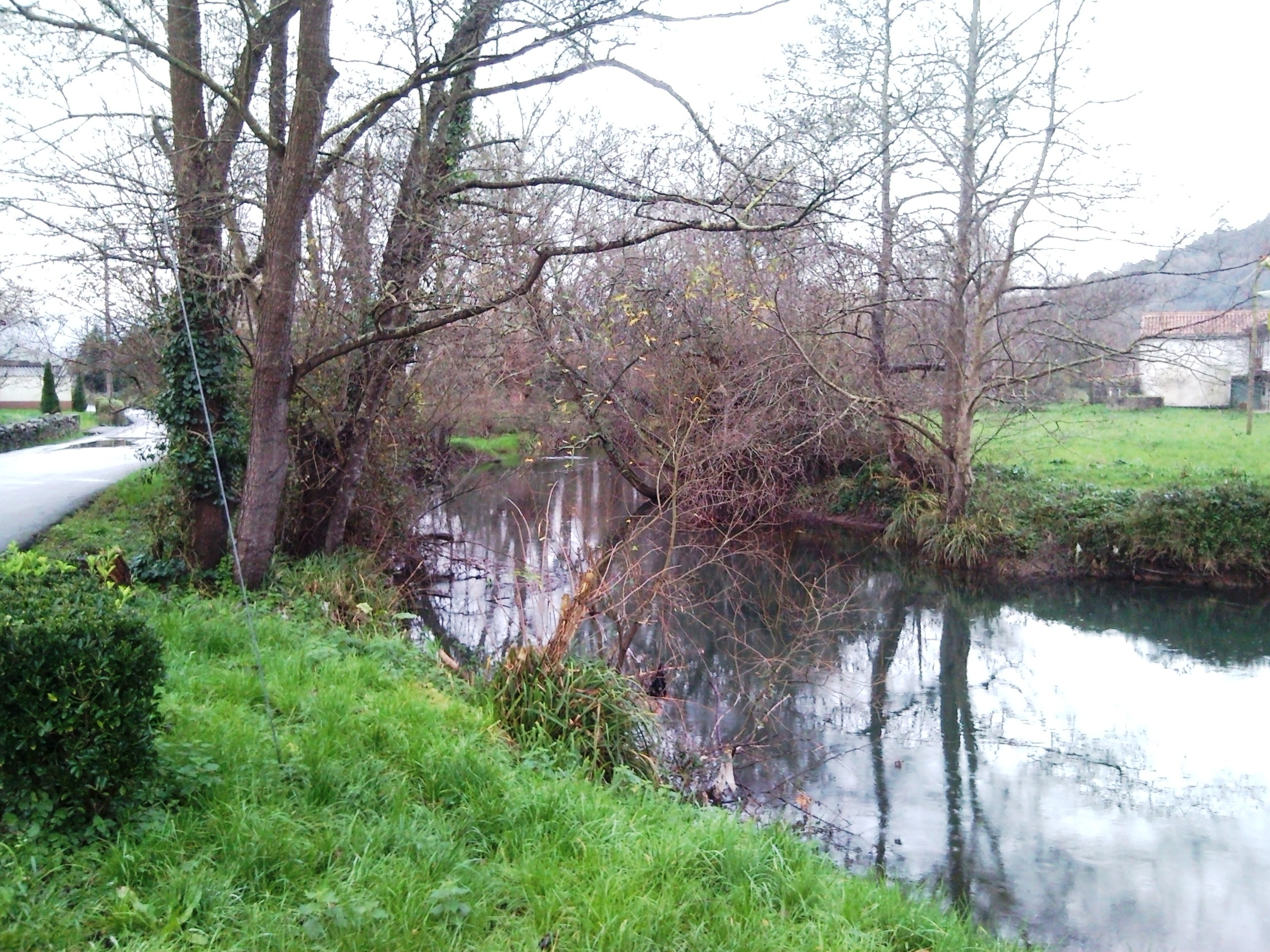 River Aguanaz in Hoznayo (Cantabria, Spain)